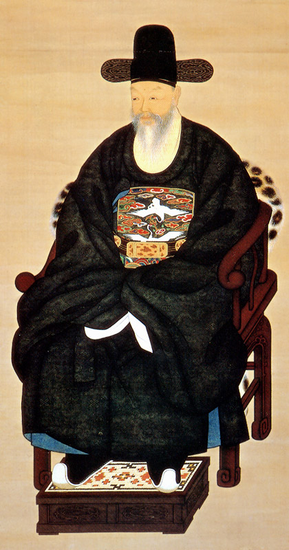 Portrait of Kim Jeong-hui